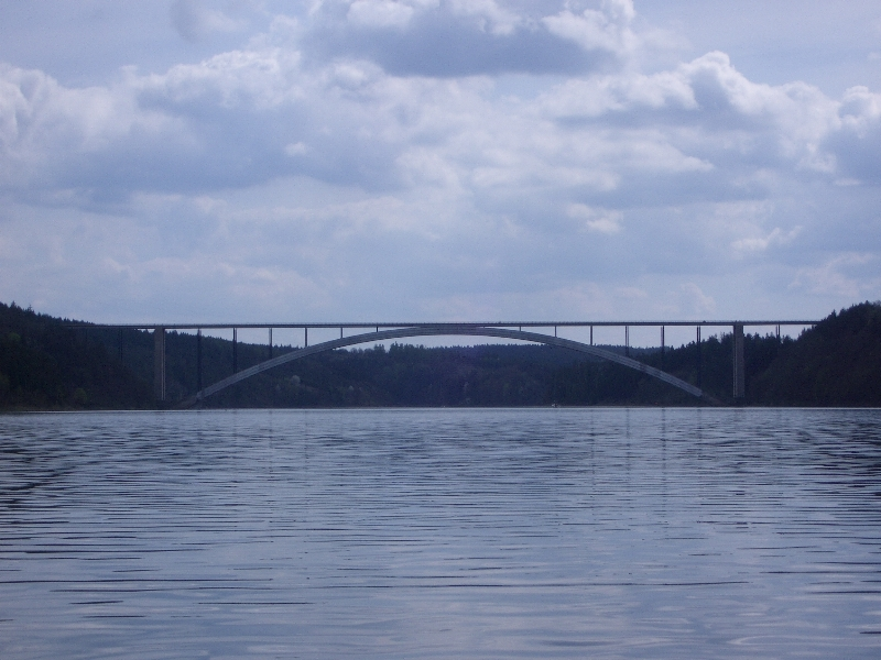 Žďákov Bridge at Orlík Dam